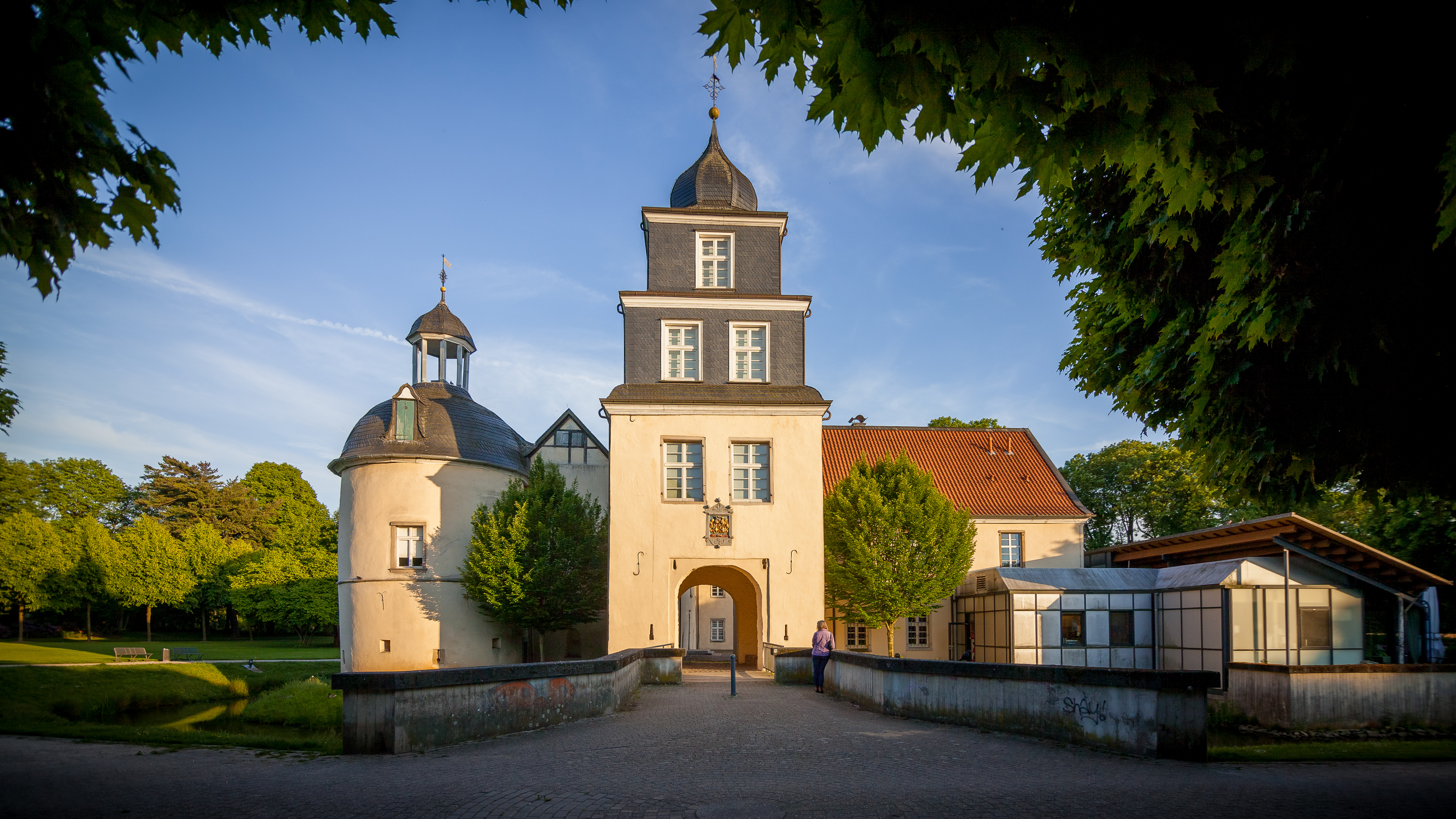 Entrance to Martfeld Manor, Schwelm, Germany on a June 2015 evening.